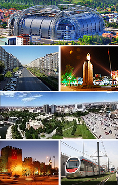 Photos used in this montage (from top to bottom and from left to right: 1.File:Kadir Has Stadium in Kayseri.jpg 2.File:Kayseri-Meydan-sardic.jpg 3.File:Sivas Avenue Kayseri.JPG 4.File:Kayseri Meydan Panorama.jpg 5.File:Kayseray32 fotoresim 18.png 6.File:Kayseri-walls-sardic1.jpg